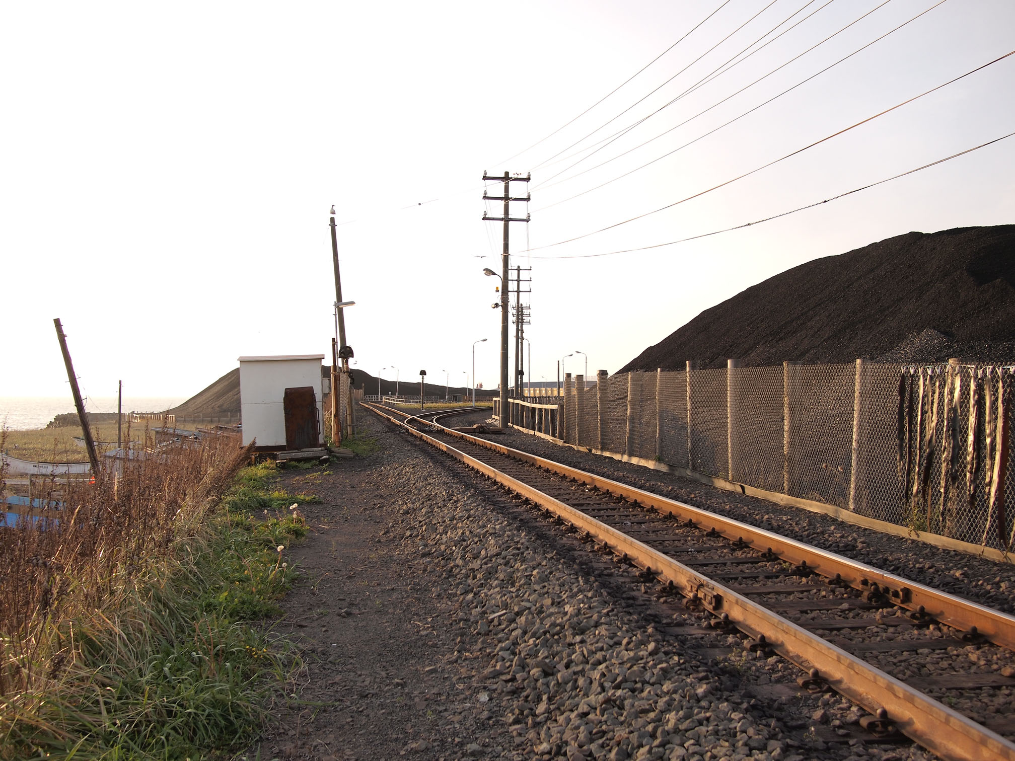 Taiheiyo Coal Services and Transportation Shirito Station, Kushiro, Hokkaido, Japan